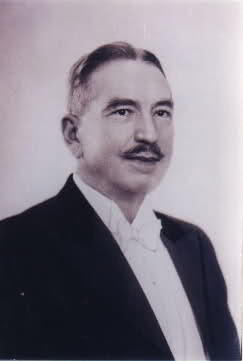 جعفر والي باشا